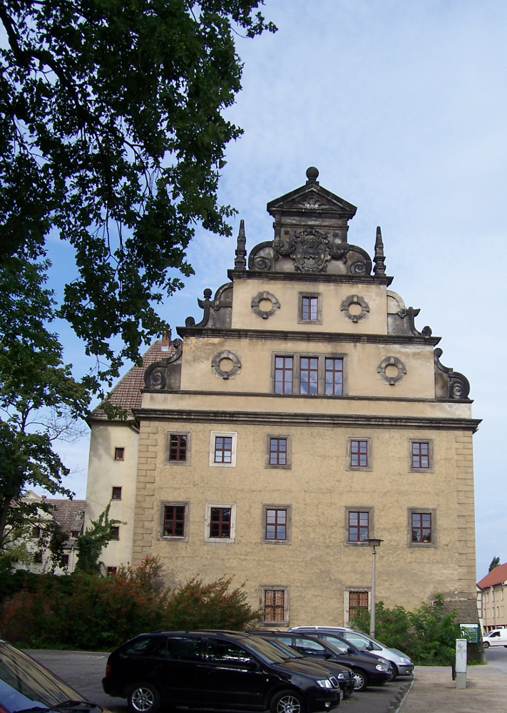 East facing side of Lutherhaus in Wittenberg, Germany